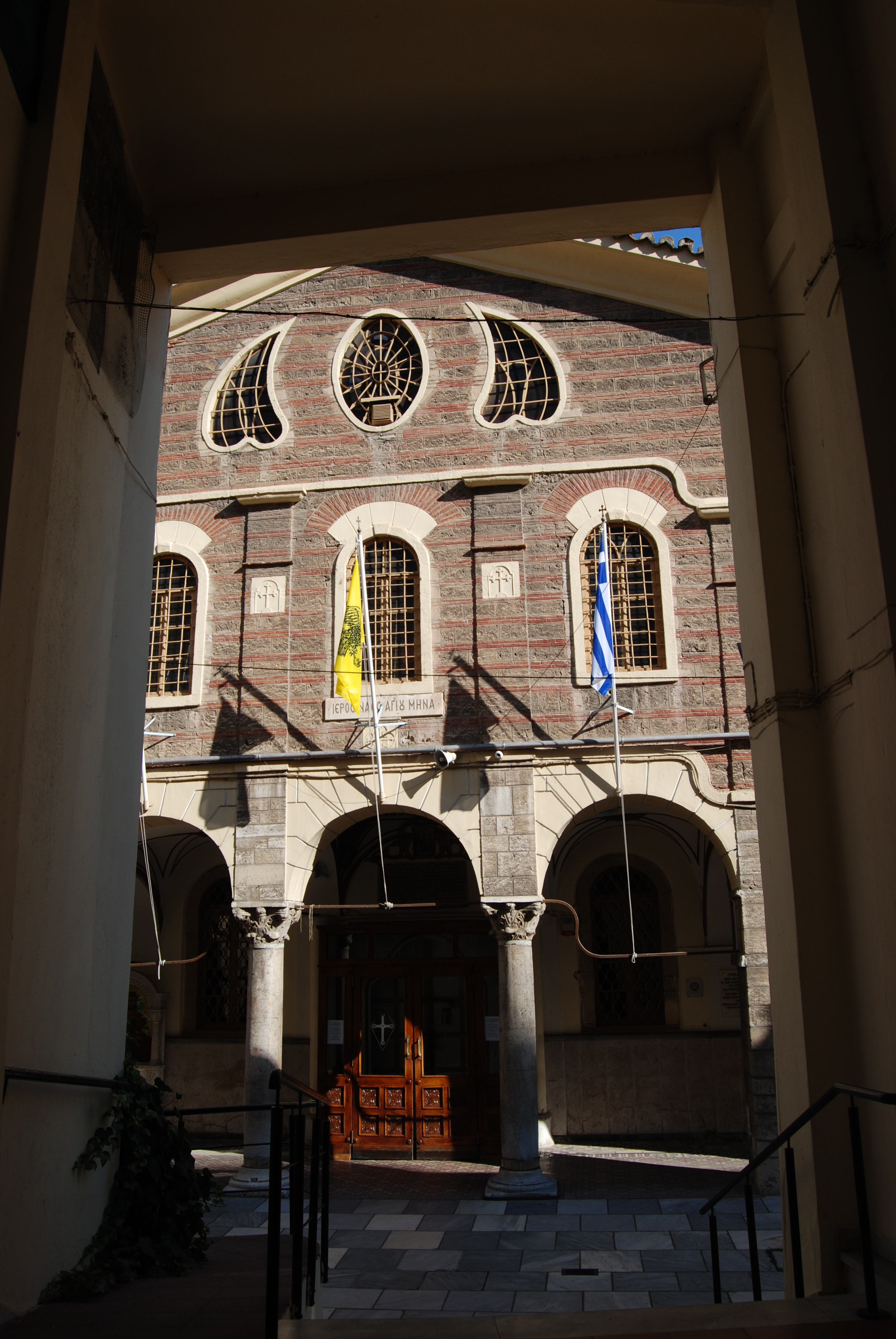 Saint Mina Thessaloniki